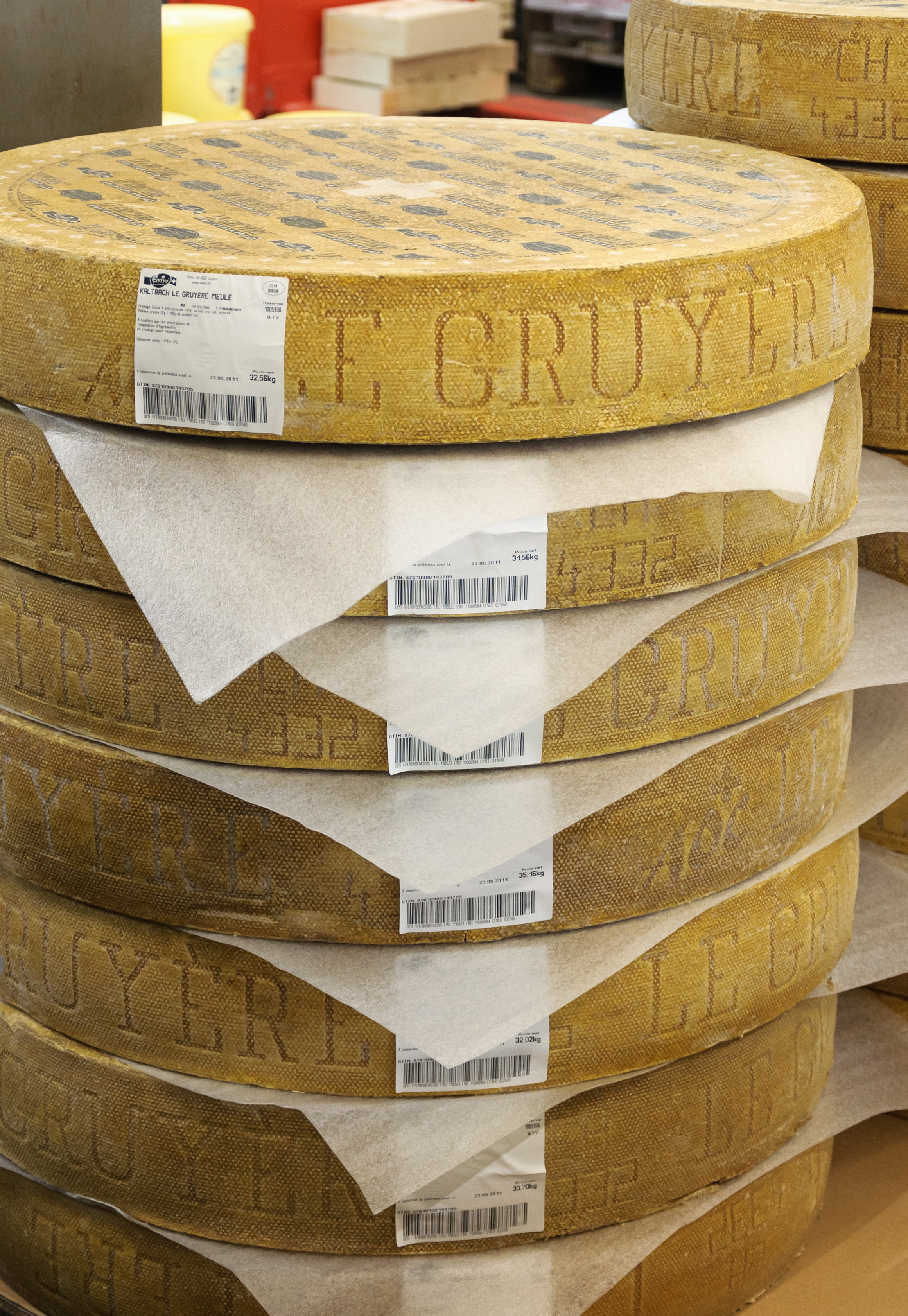 Rounds of Swiss Gruyère cheese on sale in the Rungis International Market, France.